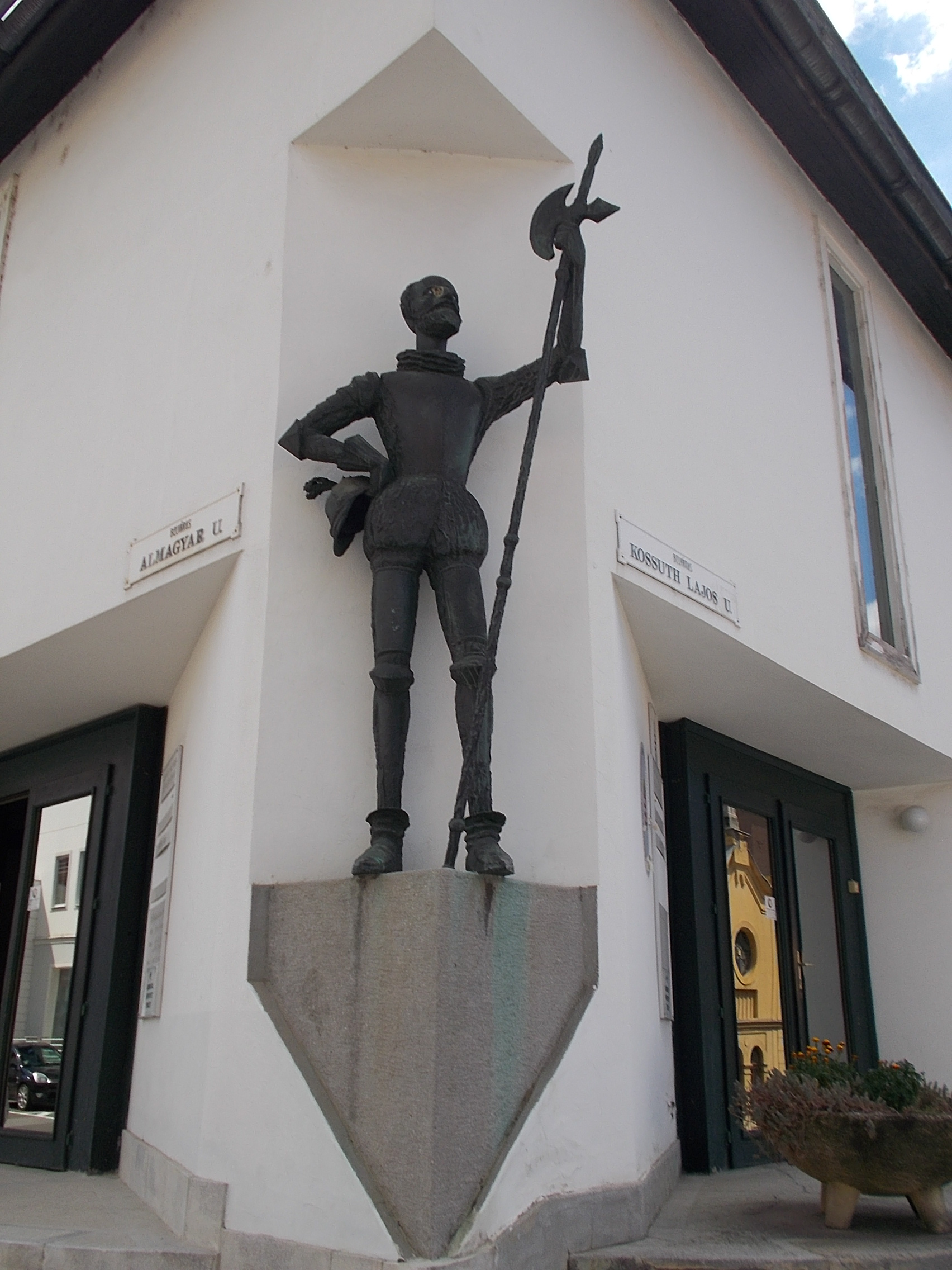 Soldier with halberd statue by Makrisz Agamemnon in 1986. (copper plate, soldiers in Turkish times 'costume') - Kossuth St.&Almagyar St. cnr., Eger, Heves County, Hungary.